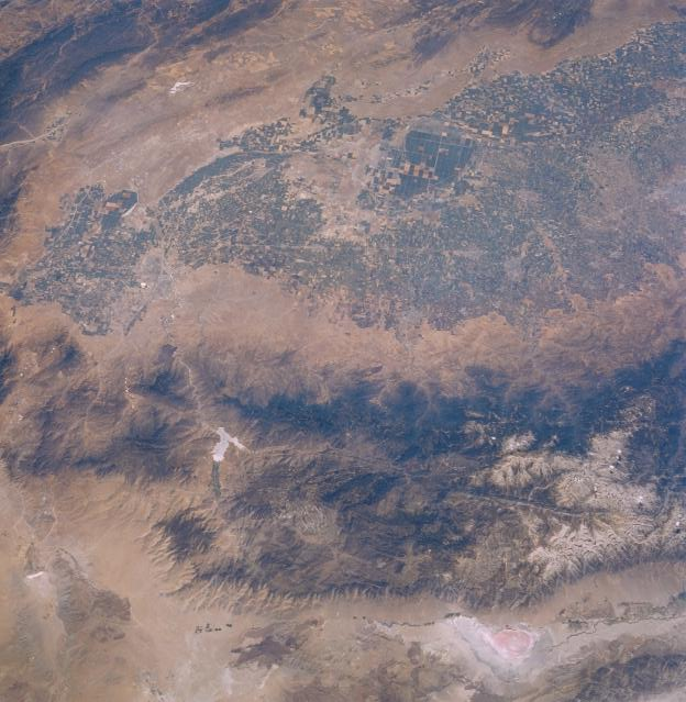 This photograph encompasses the Sierra Nevada Mountains, reddish Owens Lake, the southern San Joaquin Valley, and the faulted Owens River Valley. Traversing the Sierra Nevada Mountains westward from Owens Lake is the north-south-trending Kern River Valley. This deep valley can be traced from its source near snowcapped Mount Whitney to Lake Isabella (Y-shaped reservoir with a highly reflective surface) and then southwest to Bakersfield. Immediately west of the forested Sierra Nevada Mountains is the broad expanse of the southern intensively agricultural San Joaquin Valley. Discernible are the vague outline of Bakersfield, several smaller rural cities, and the low mountains and hills to the west and southwest that eventually grade into the Coast Range.